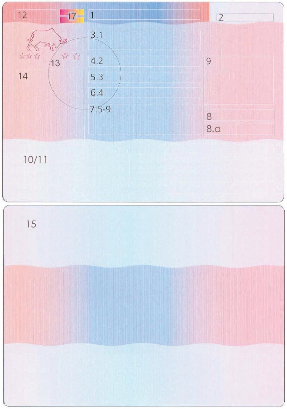 Residence permit for third-country nationals including biometrics in ID 2 format